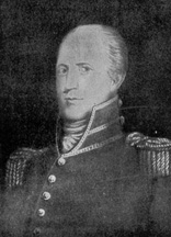 Portrait of Senator William Trimble of Ohio